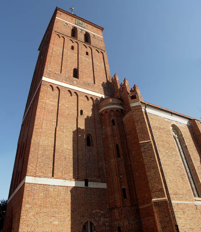 Church in Reszel/Poland